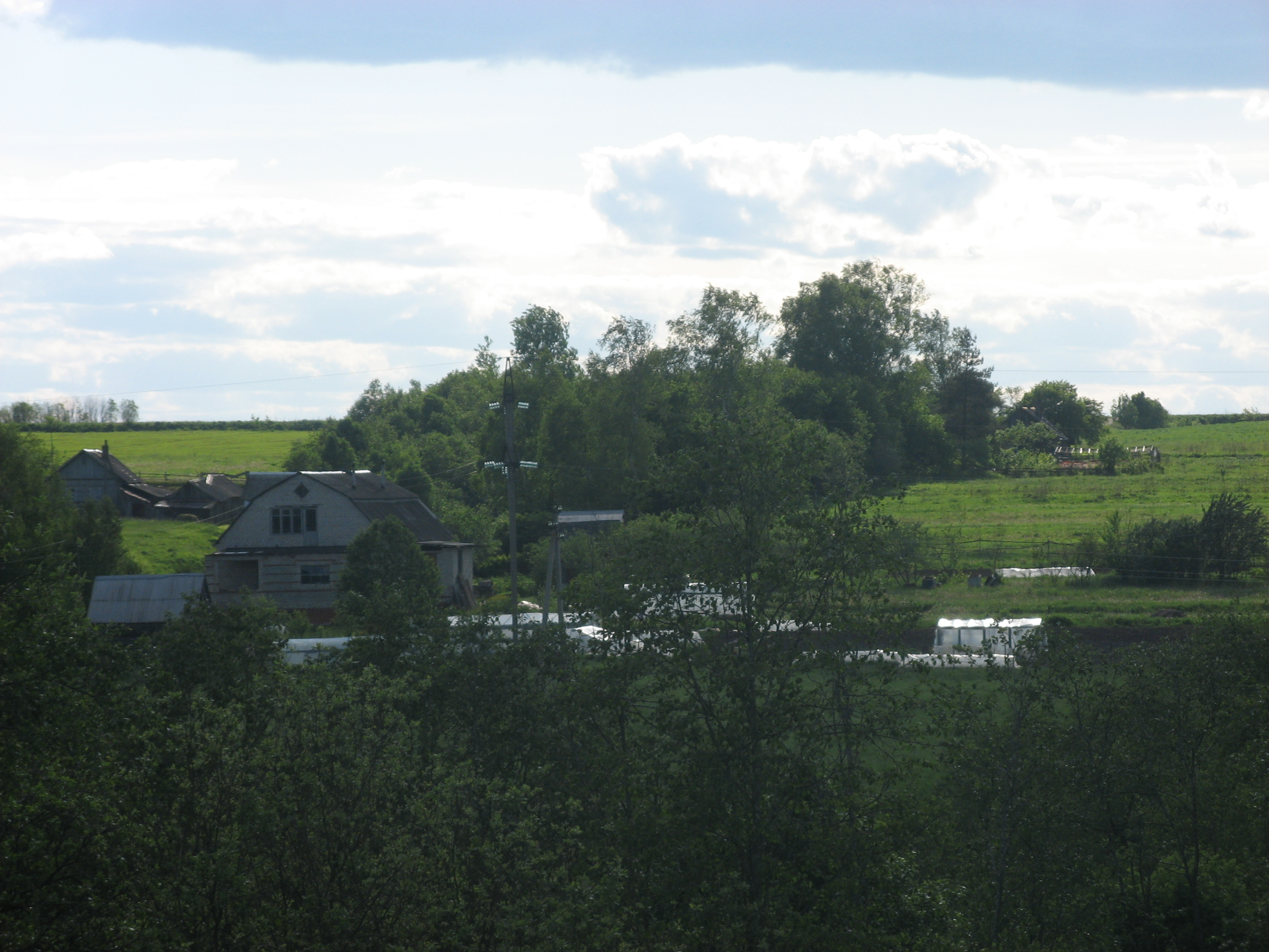 view on village from Pushkino